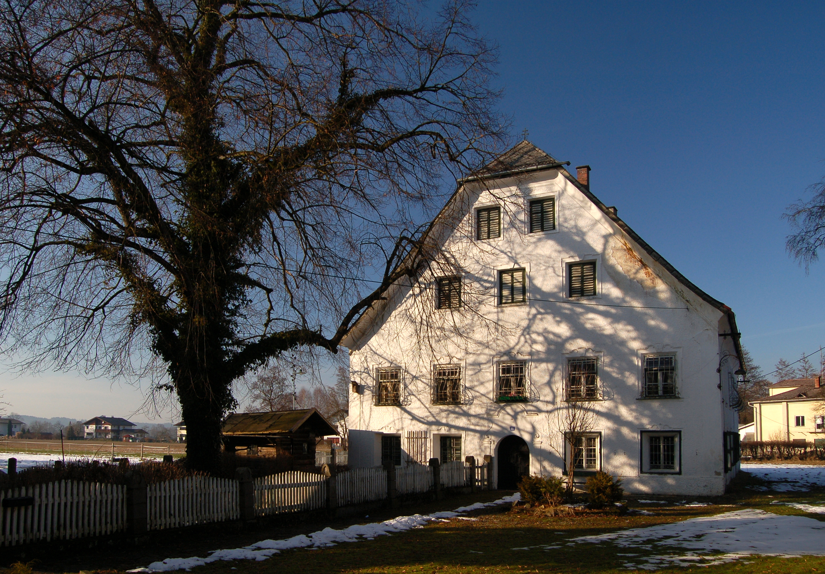 Herrenhaus Schalchen, built in 1898. South and main side.